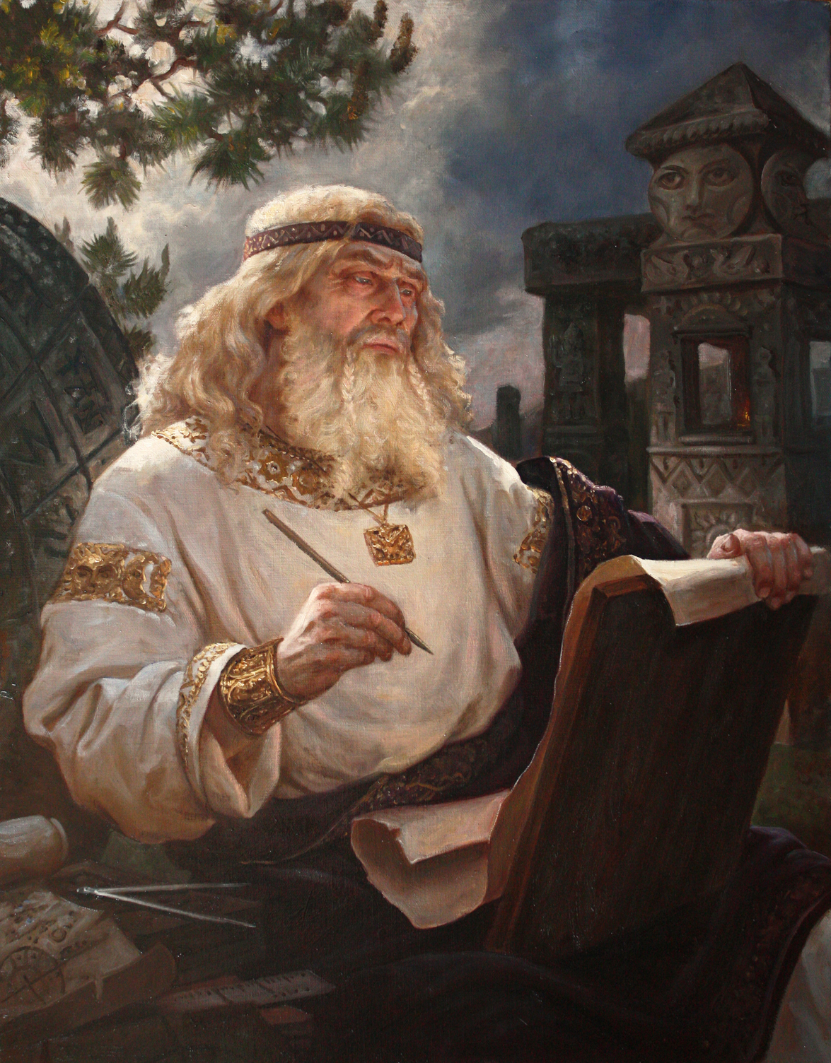 Chislobog by Andrey Shishkin